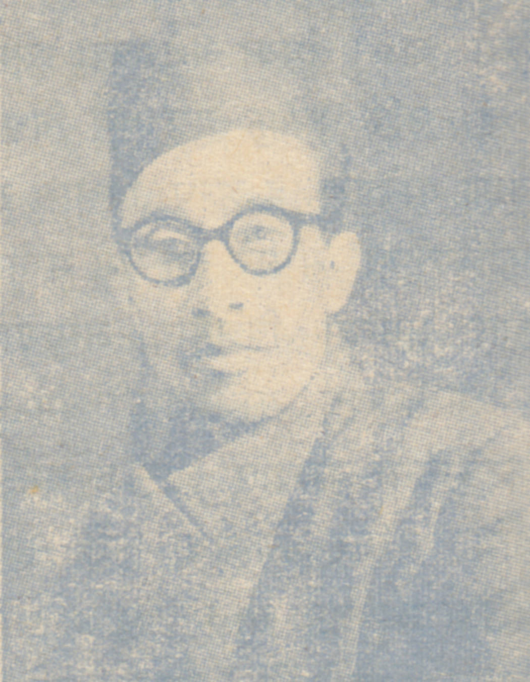 Portrait of Nepalese journalist and poet Phatte Bahadur Singh (1902-1983).